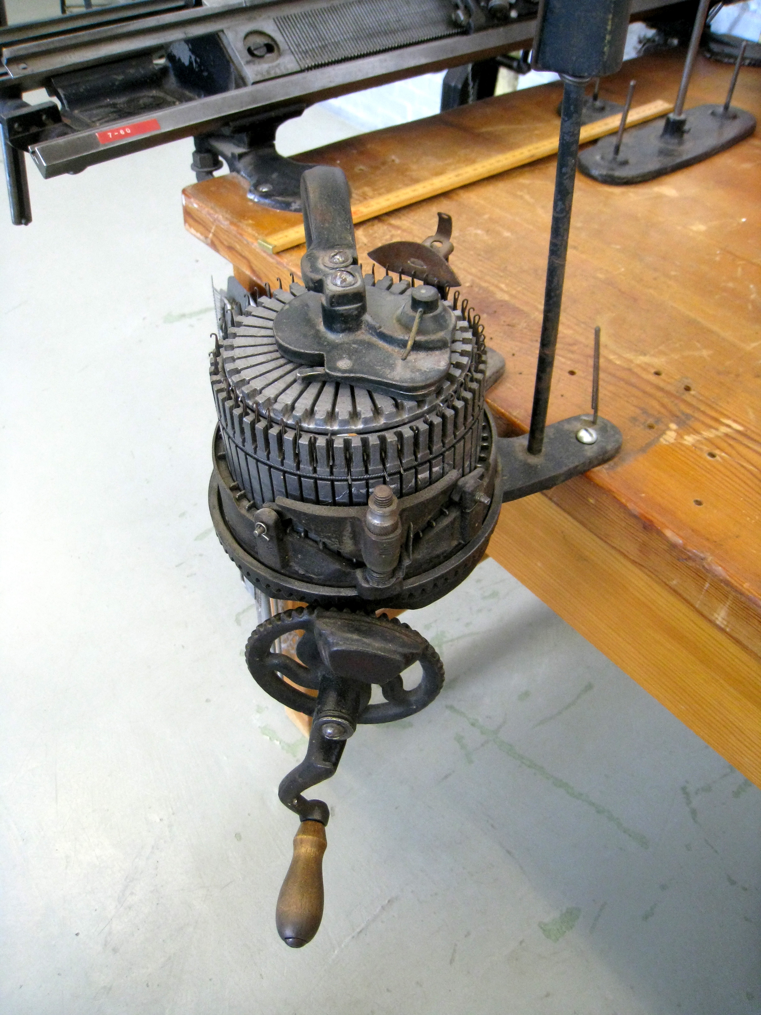 A circular knitting machine at the Arbetets Museum (Museum of Work), in Norrköping, Sweden.